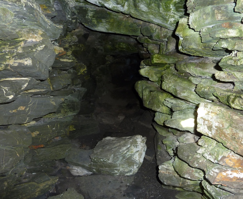 Tirefour Broch, Lismore, Scotland - gallery interior